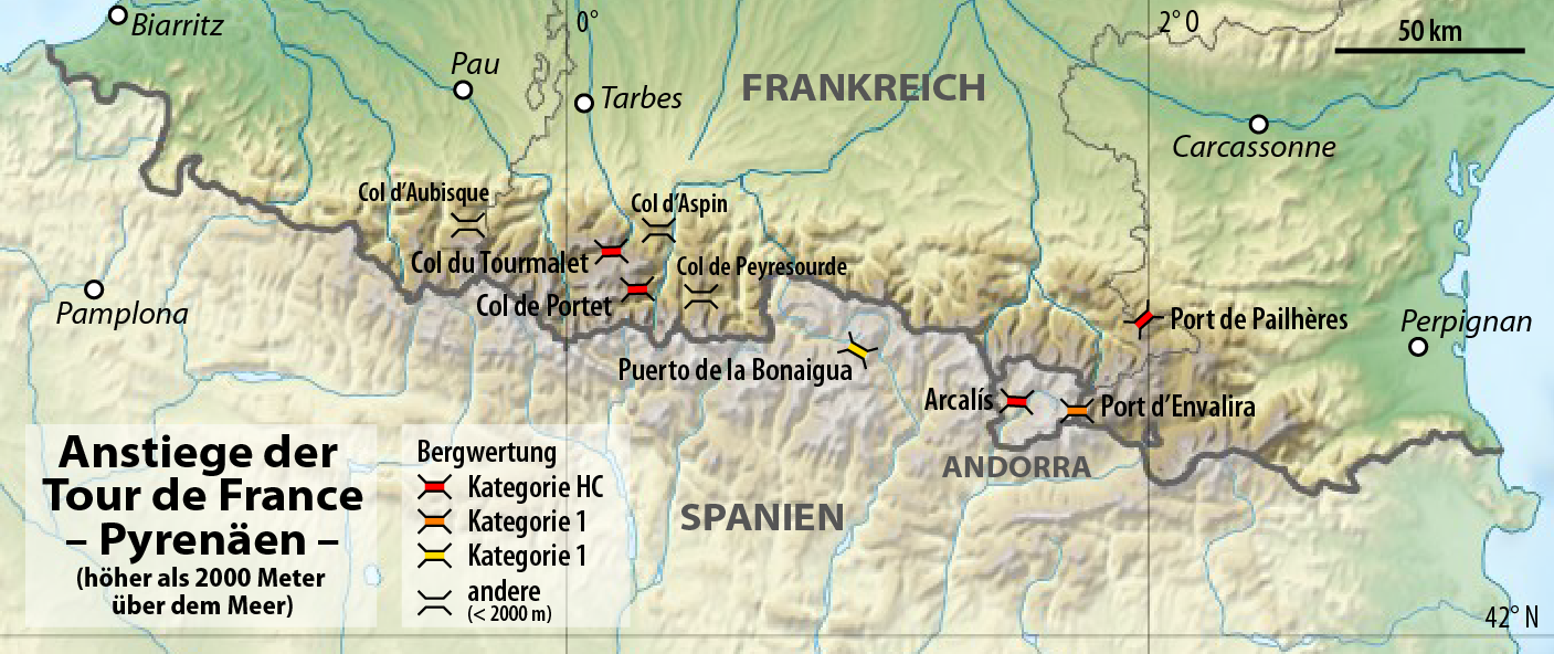 Map of the highest climbs of the Tour de France in the Pyrenees